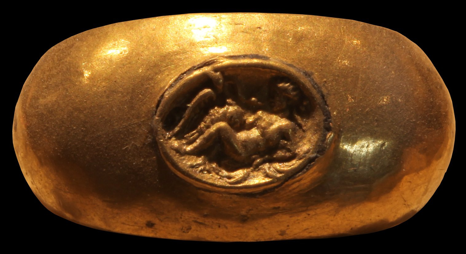 Golden Roman ring adorned with a scheme form the legend of Leda On display at Vidy Roman Museum